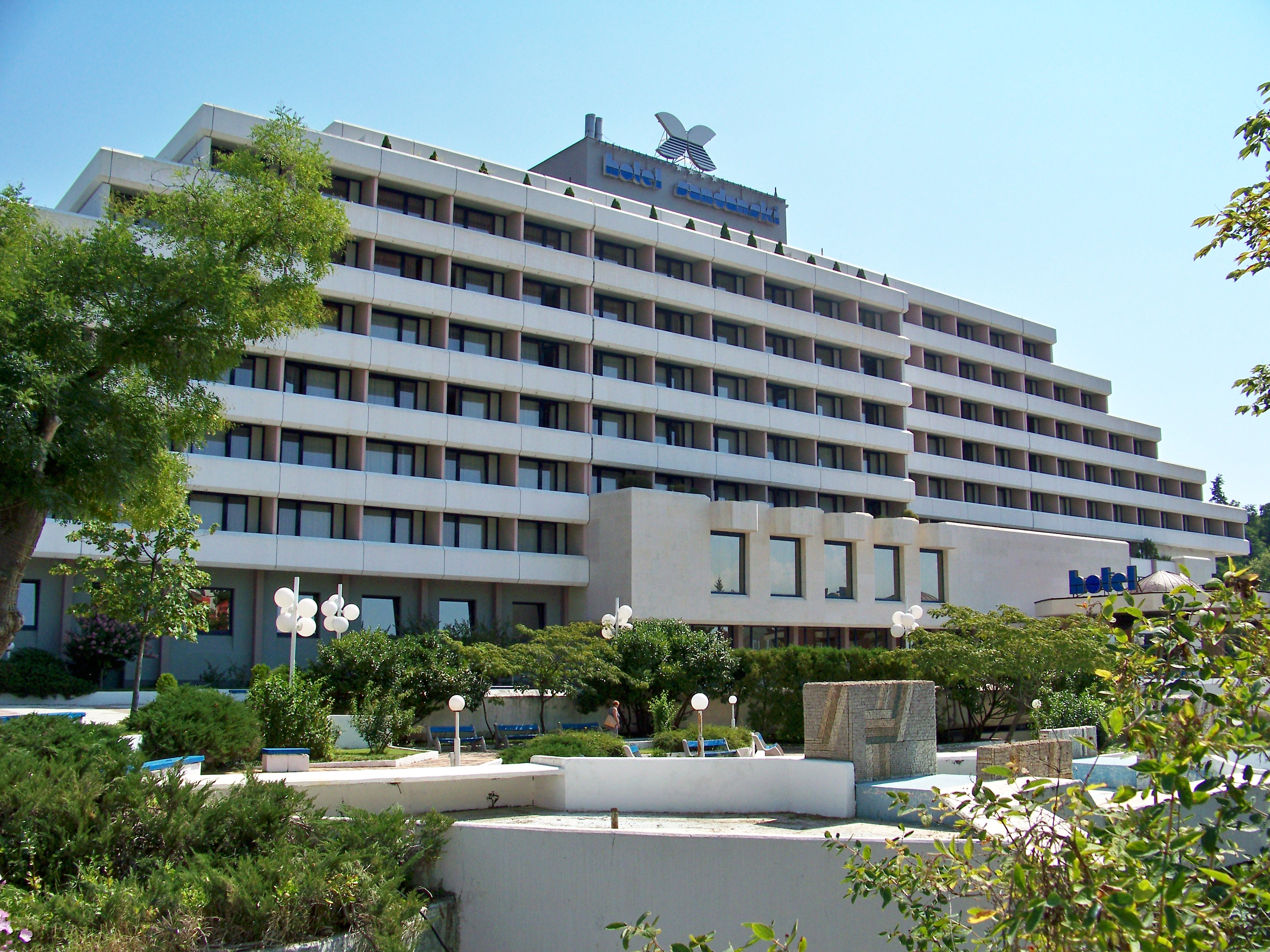 Sandanski (Bulgarian: Сандански, formerly, until 1949 Свети Врач, Sveti Vrach) is a town and a recreation centre in south-western Bulgaria, part of Blagoevgrad Province.